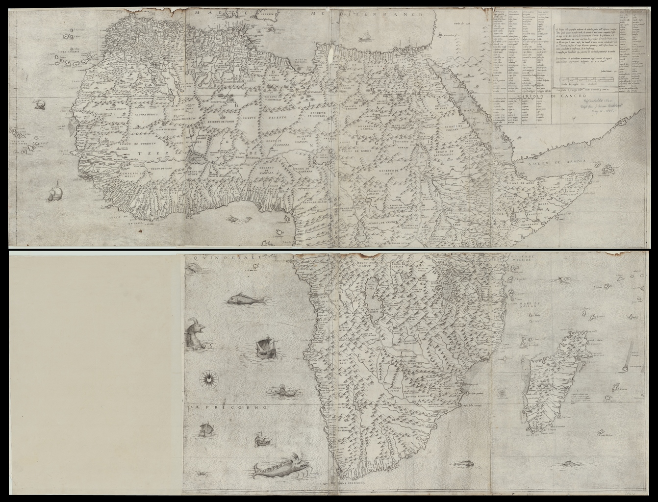 This rare map from 1564 printed on eight copperplates is the finest and most important large-scale map of Africa produced in the 16th century. Earlier maps were mostly printed from woodcuts; copperplates allowed the engraver to reproduce much more detail and finesse. The map was made by the Italian cartographer, engineer, and astronomer Giacomo Gastaldi (circa 1500–66) and engraved by Fabricius Licinus (circa 1521–65). The map depicts a stippled sea, ships, and sea creatures, both real and mythical. The interior is covered by mountains that are shaded on the western edges to indicate perpetual sunshine. Place-names are abundant; cape and bay names are from Portuguese and Arab sources. Gastaldi, who was cosmographer to the Republic of Venice, is regarded by many scholars as the greatest cartographer of the Italian school. This map was used as an important source by later 16th and 17th century cartographers, including Ortelius, de Jode, Magini, and Mercator. Eight other copies have been reported to exist over the years, including one in the British Museum and another in the Bibliothèque nationale de France.